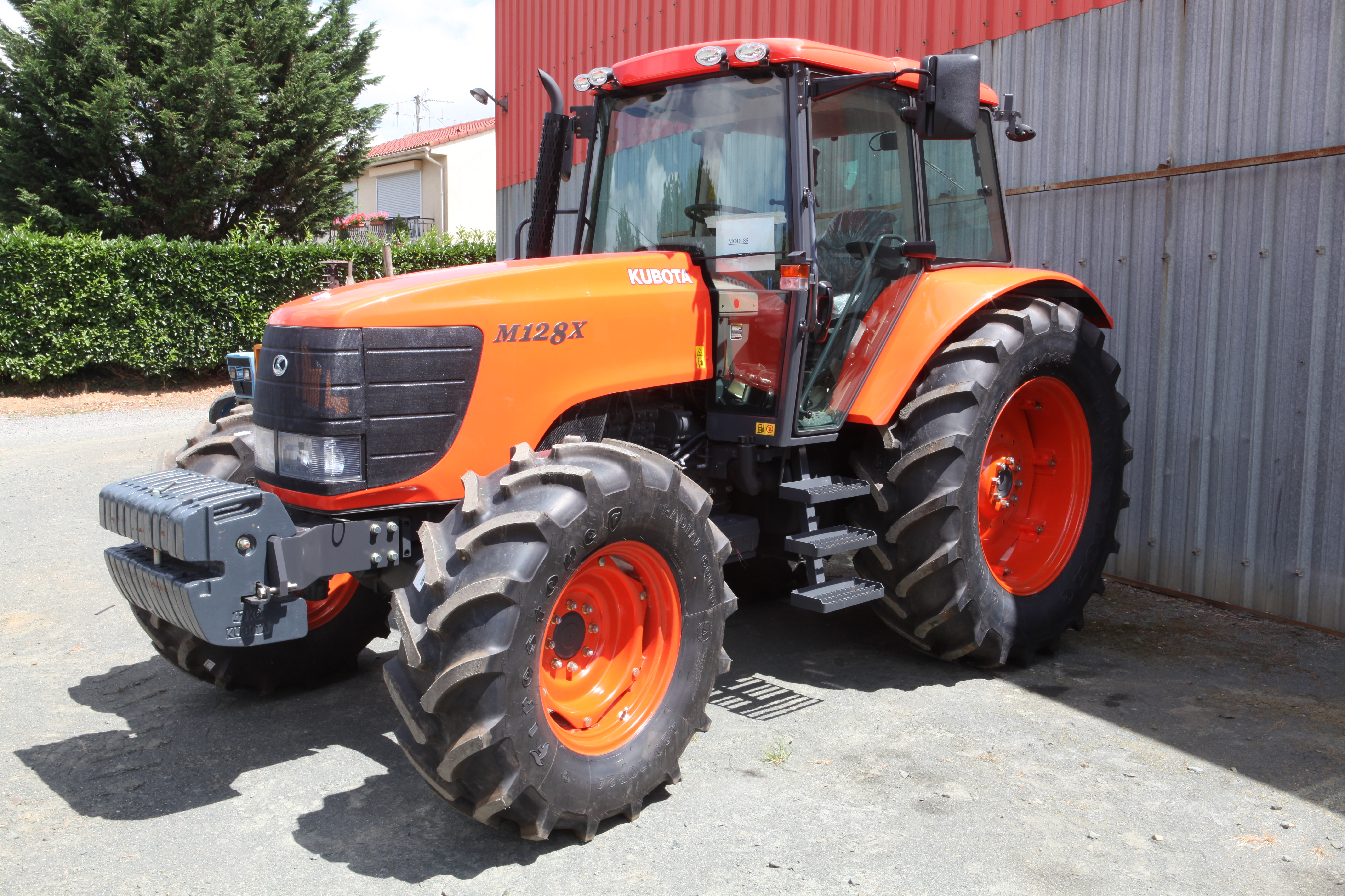 Kubota M128X tractor (in production since 2008) somewhere in Europe